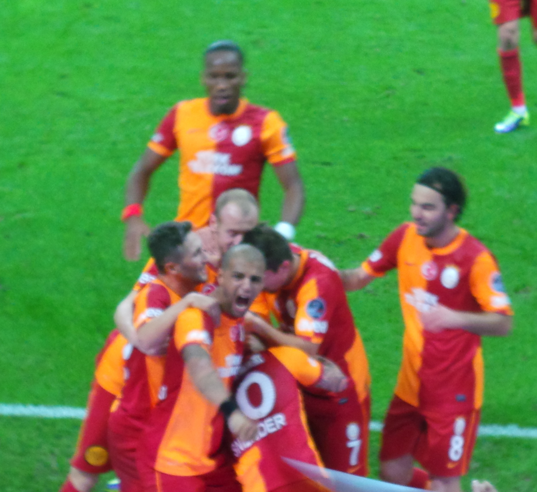 Wesley Sneijder'in Karabükspor'a attığı gol sonrası takım arkadaşlarıyla sevinci